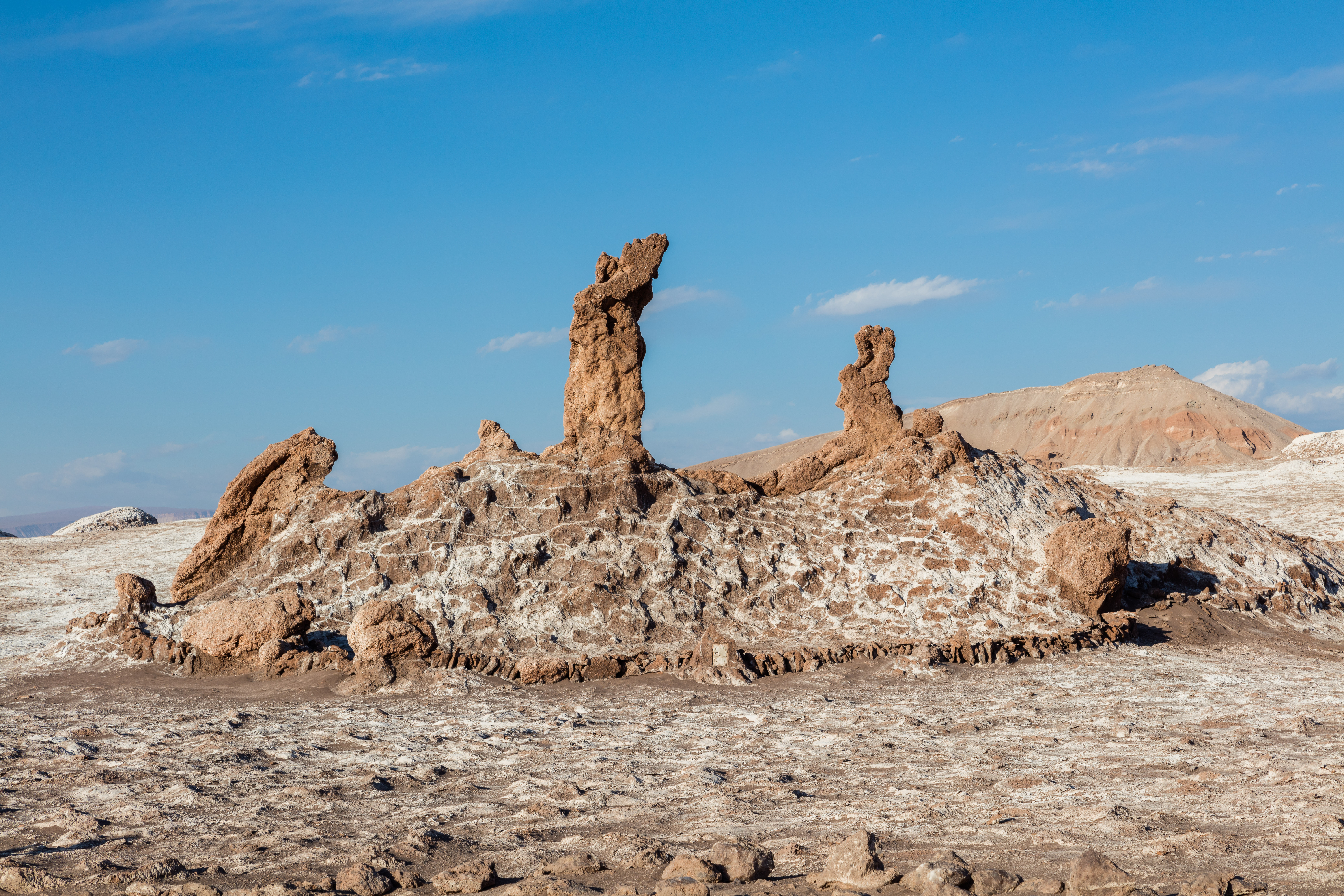 Las Tres Marías, Valle de la Luna, San Pedro de Atacama, Chile